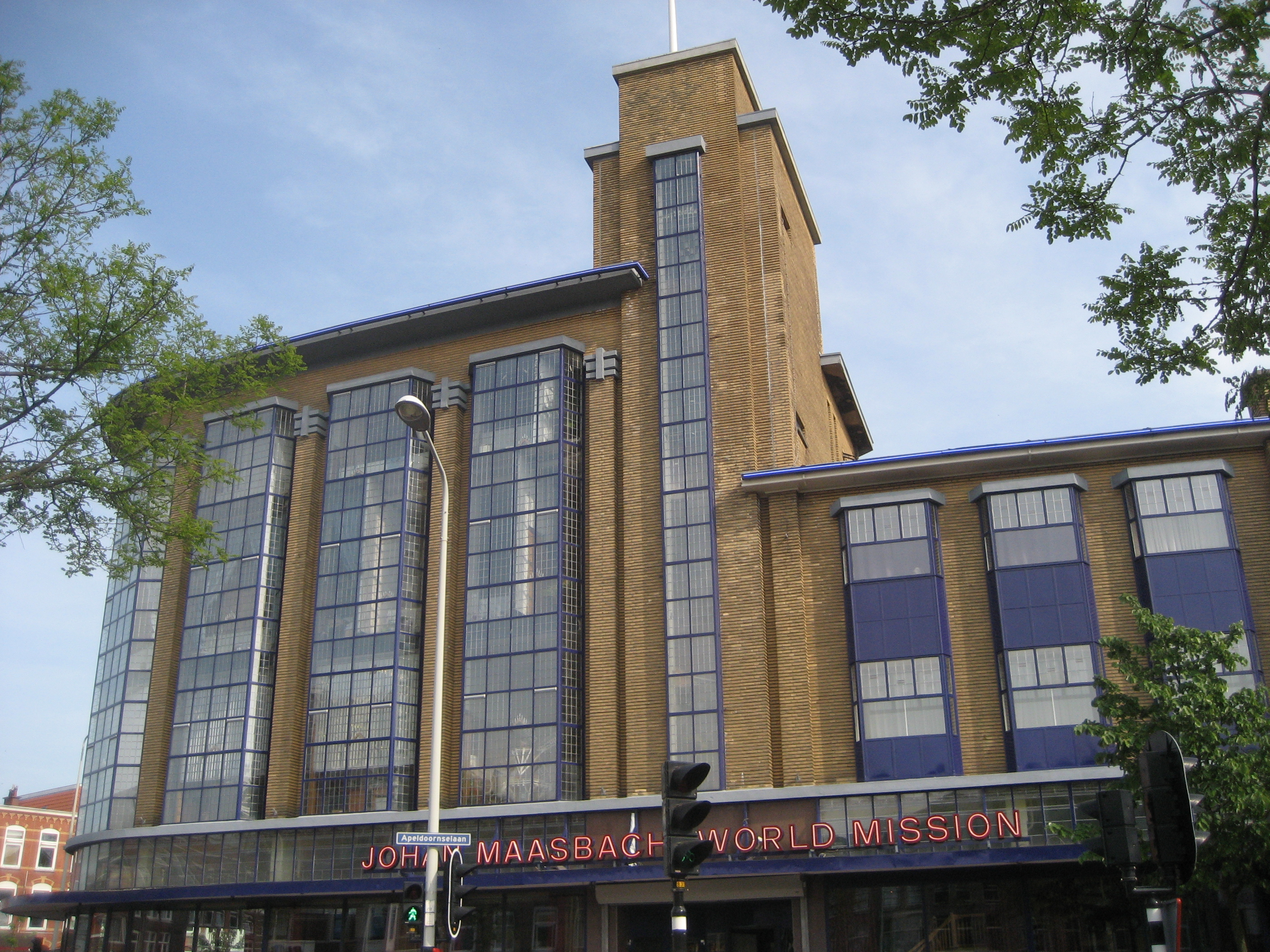 Johan Maasbach World Mission, Loosduinsekade (corner De La Reyweg), The Hague, The Netherlands. Architects: Bennink - Dénis.